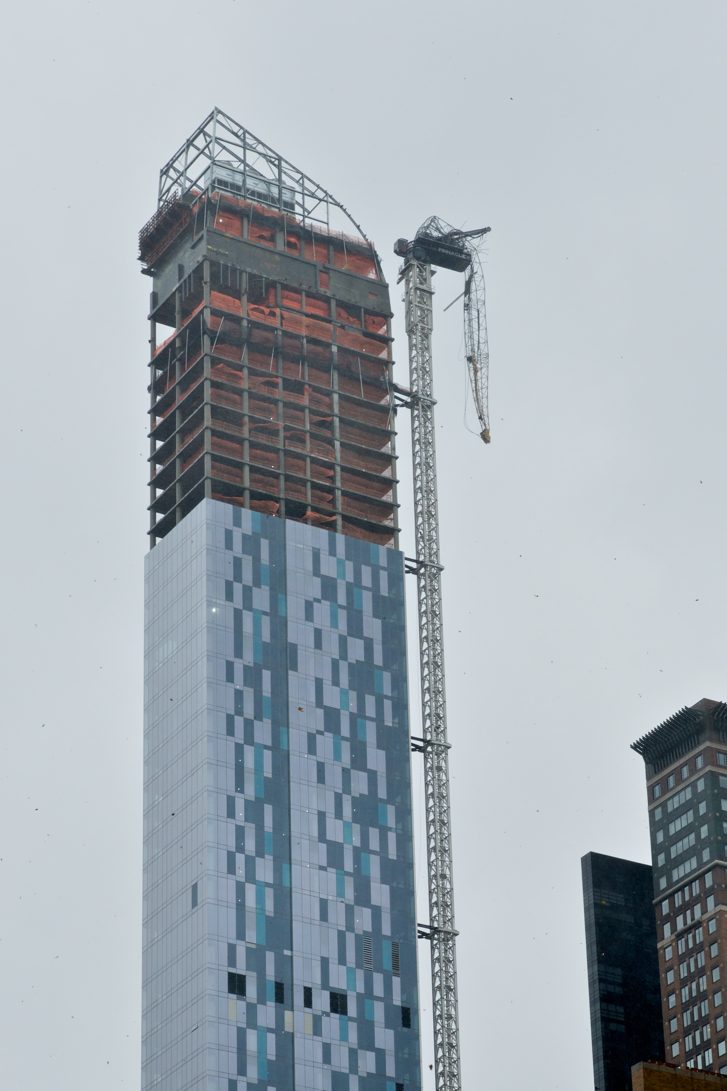 Hurricane Sandy in New York City shot by Jordan Balderas October 29, 2012